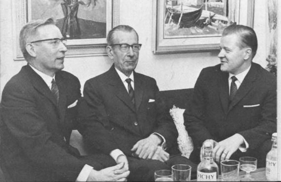 Photograph of the three first municipal directors of Mänttä market town: Paavo Myllymäki, Rudolf Peltonen, and Keijo Liinamaa.